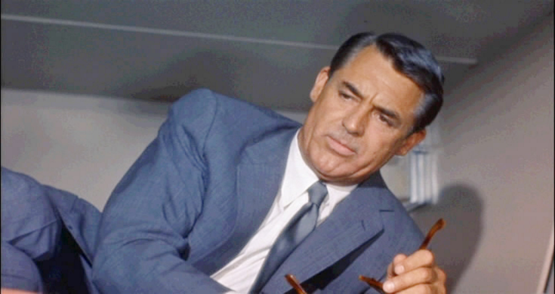 Screenshot of Cary Grant in a storage compartment.